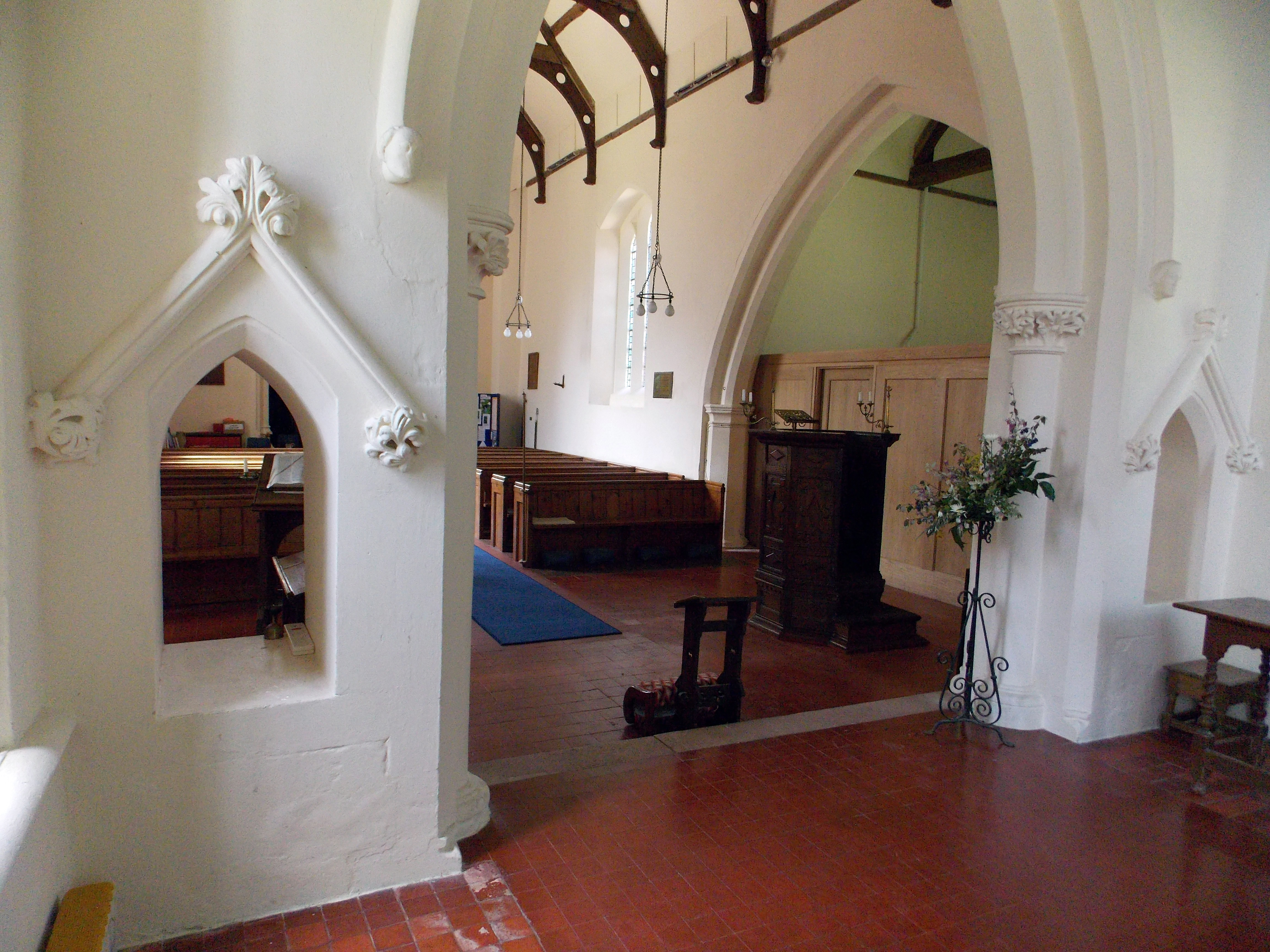 St Nicholas' parish church, Berden, Essex: chancel arch and hagioscopes (squints)